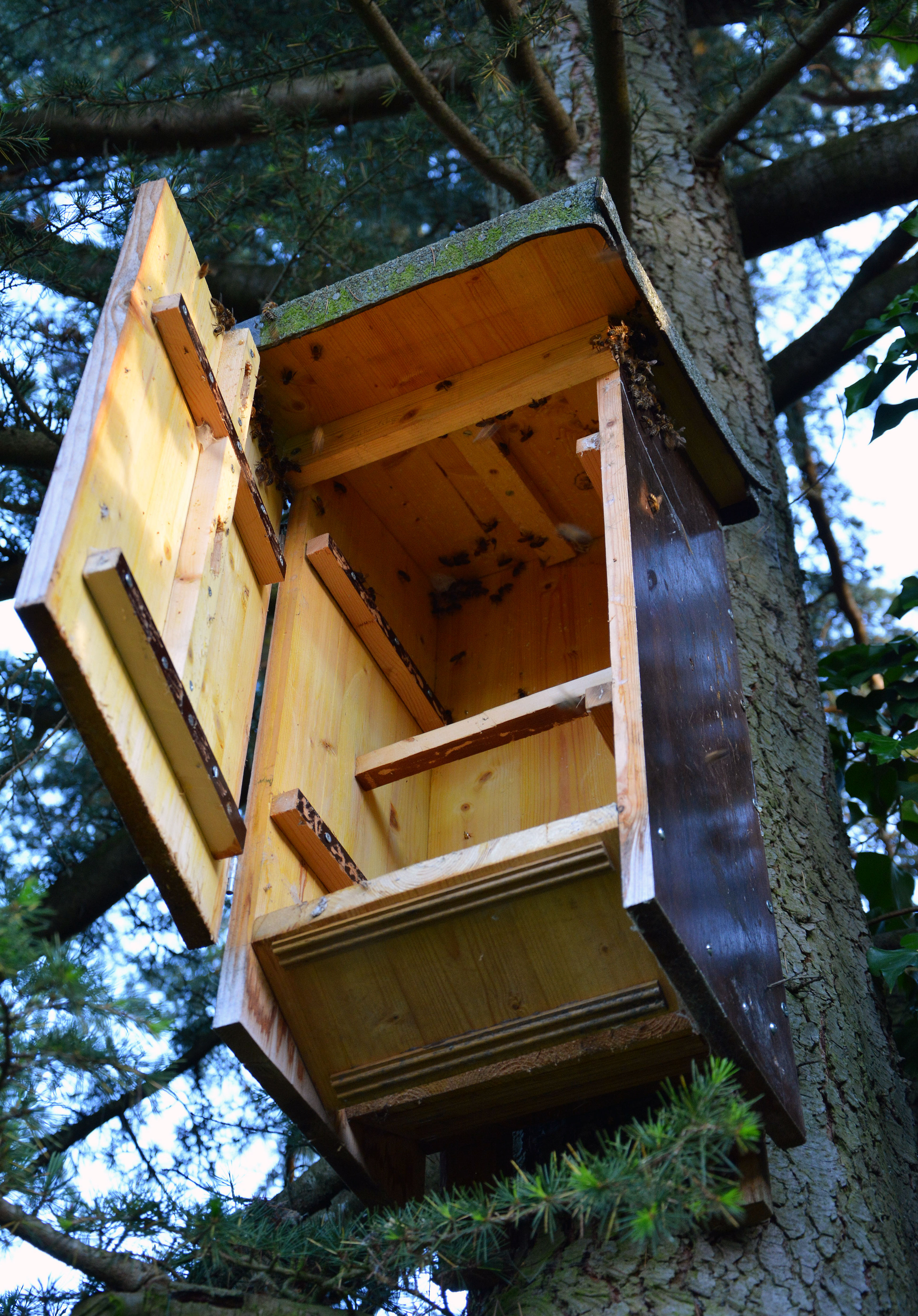 “Mündener Hornissenkasten” (a special type of hornet nesting box) with a remainder of a bee colony.